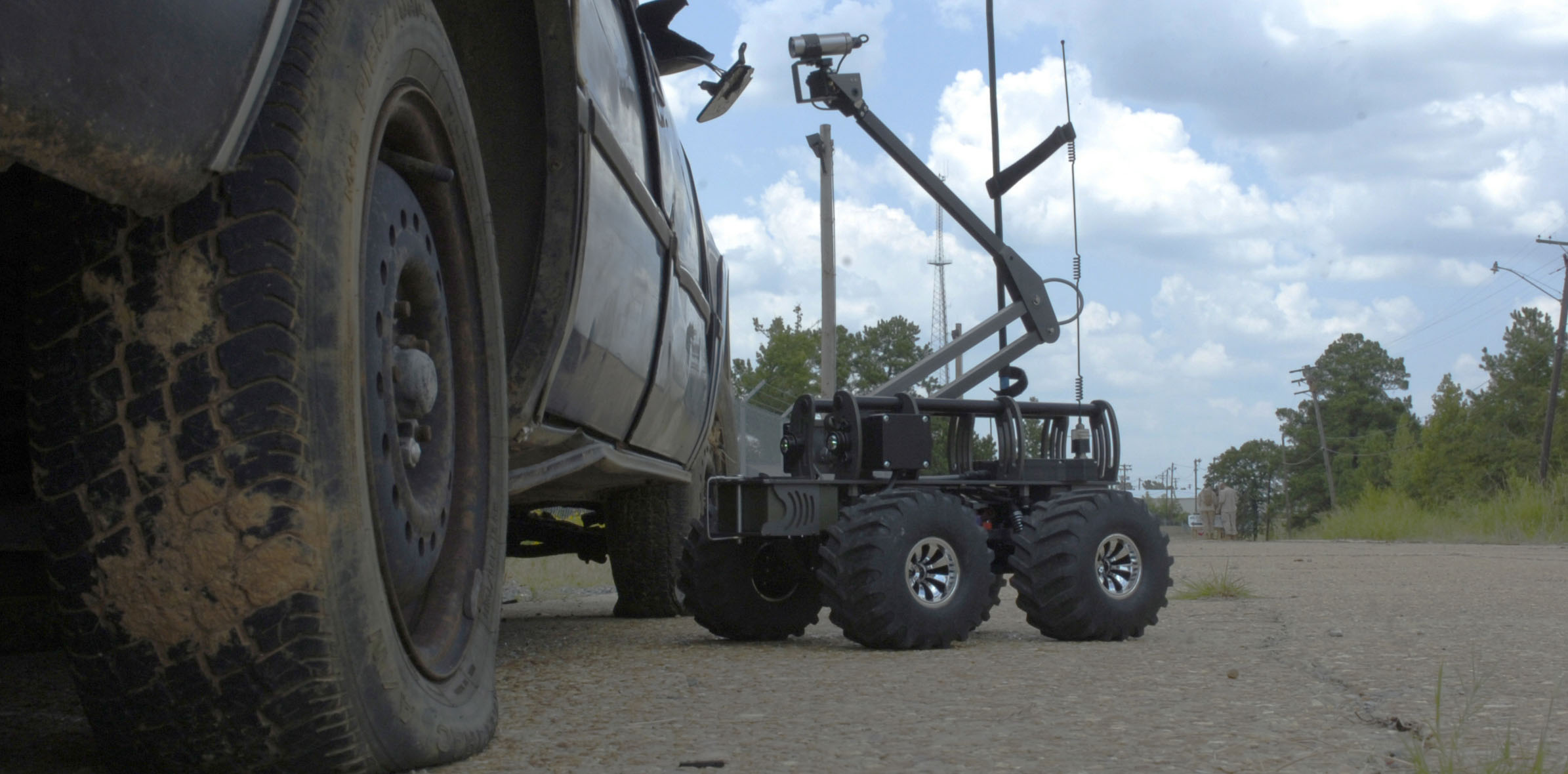 The MARCbot IV extends its camera nearly four feet in the air to search for suspected improvised explosive devices at the training course in Fort Polk, La. Paratroopers of the 3rd Brigade Combat Team will have the opportunity use this tool in their upcoming deployment in support of the war on terror.